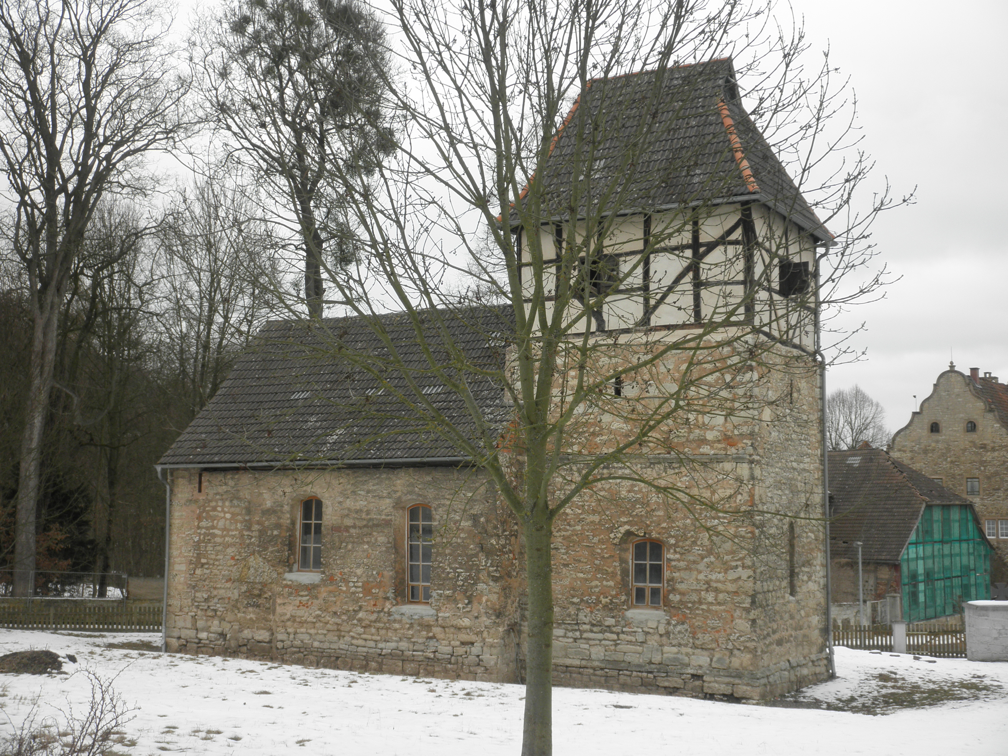 Church in Wernrode (Wolkramshausen) in Thuringia